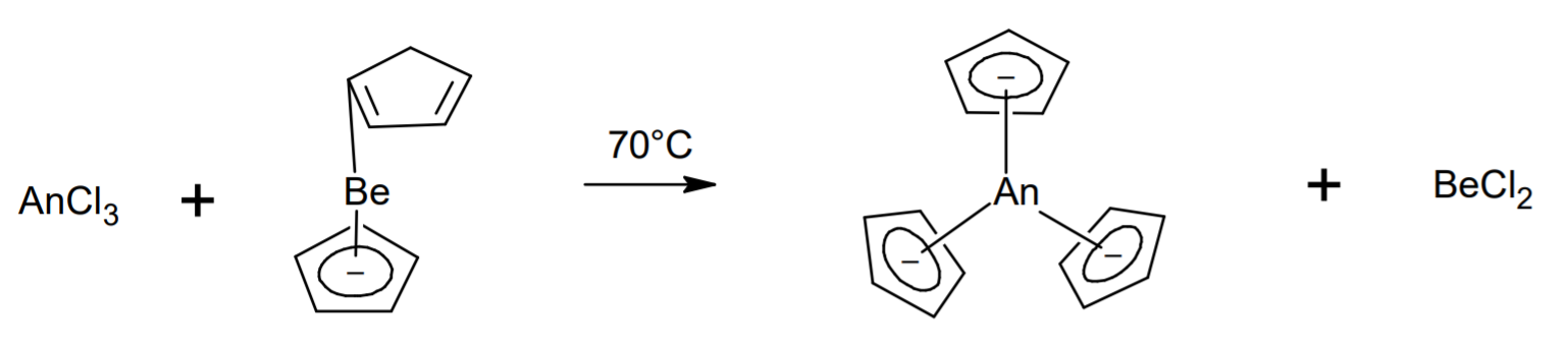 the syntheis of tris cyclopentadienyl actinides